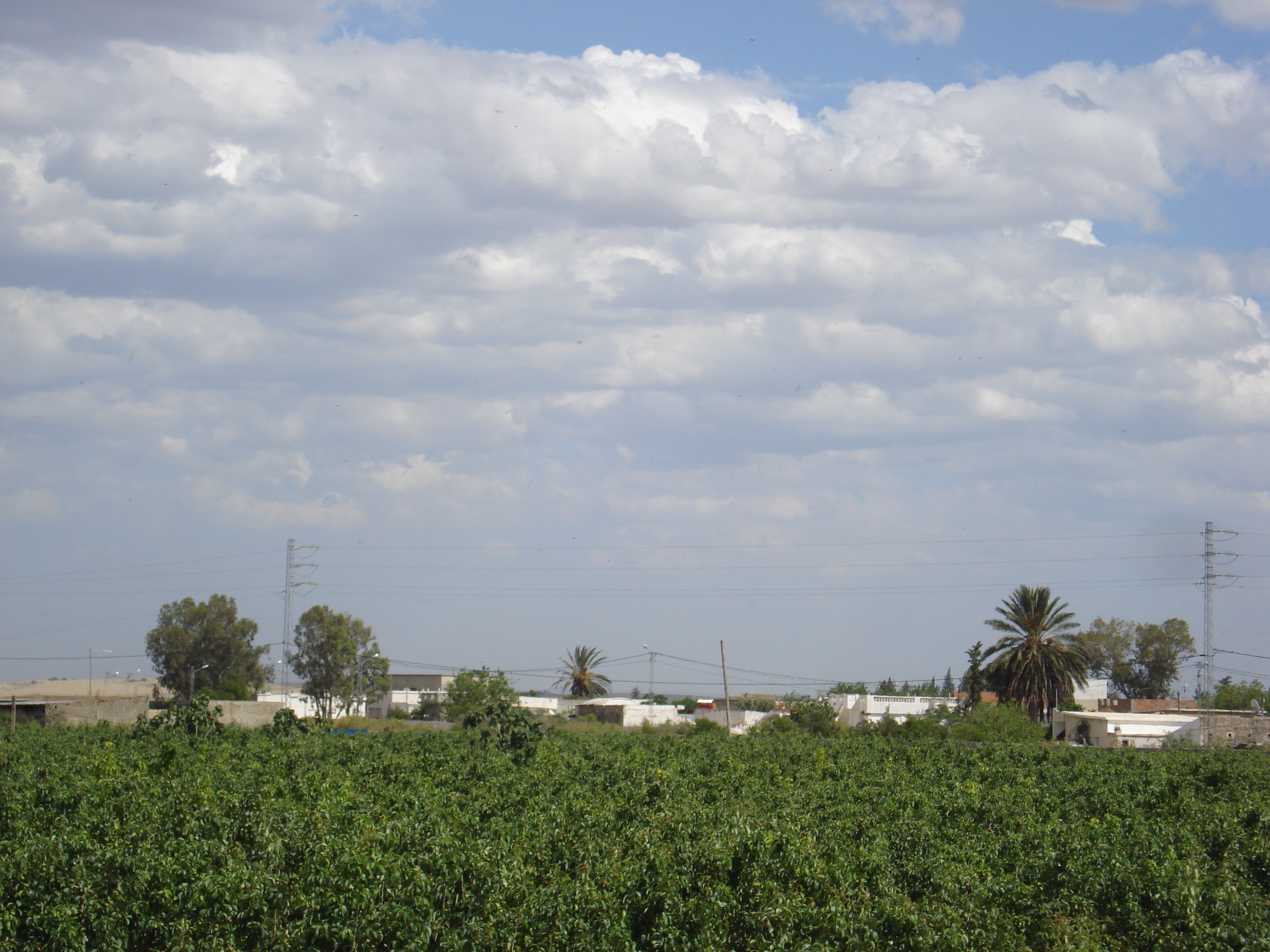 Hathermine, Tunisia